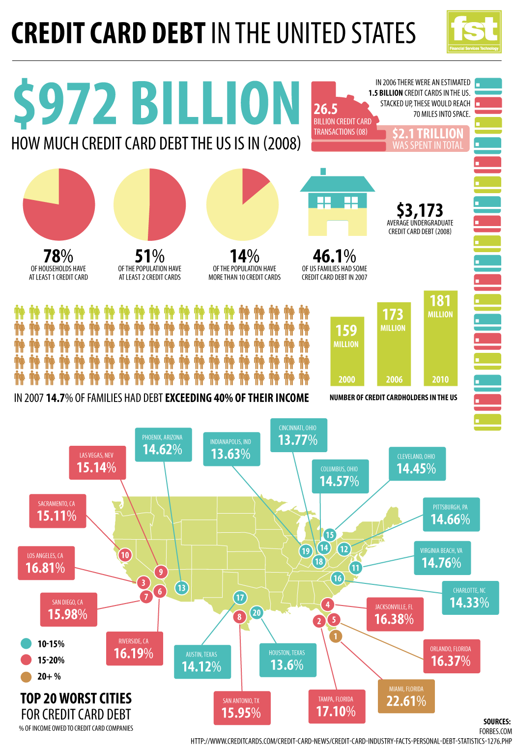 With the recession forcing more and more Americans to burden their credit cards with debt, it's time to ask whether the increasing accrued costs are manageable, or are detrimentally impacting lives.